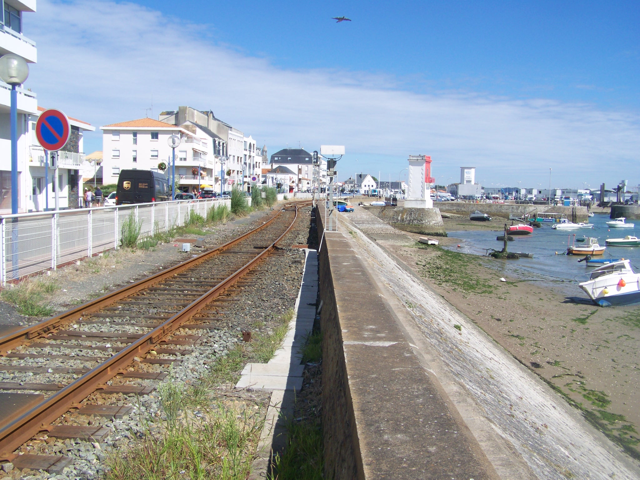 Arrival to its end of the French railway line from Nantes (Loire-Atlantique) to St-Gilles Croix de Vie (Vendée).